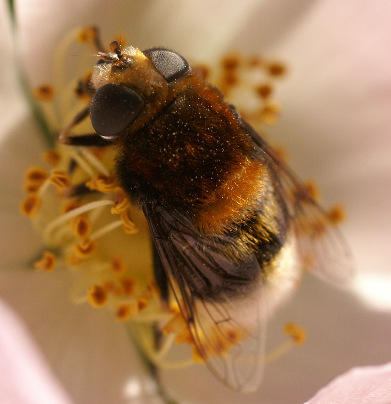 Eristalis intricaria, female, on a Rosa sp. Picture taken in Skåne, Sweden.